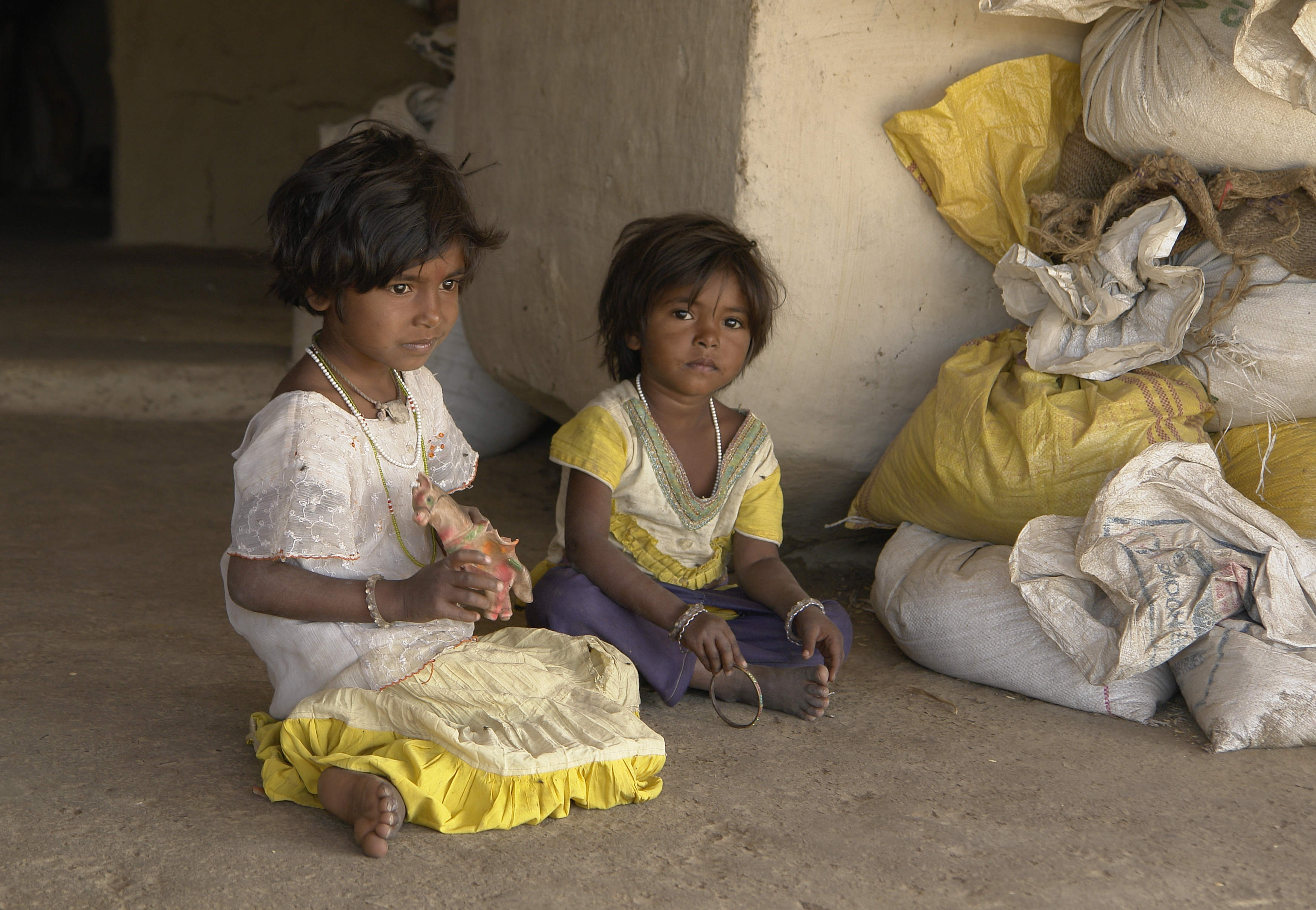 Young Indian girls, Raisen district, Madhya Pradesh, India.